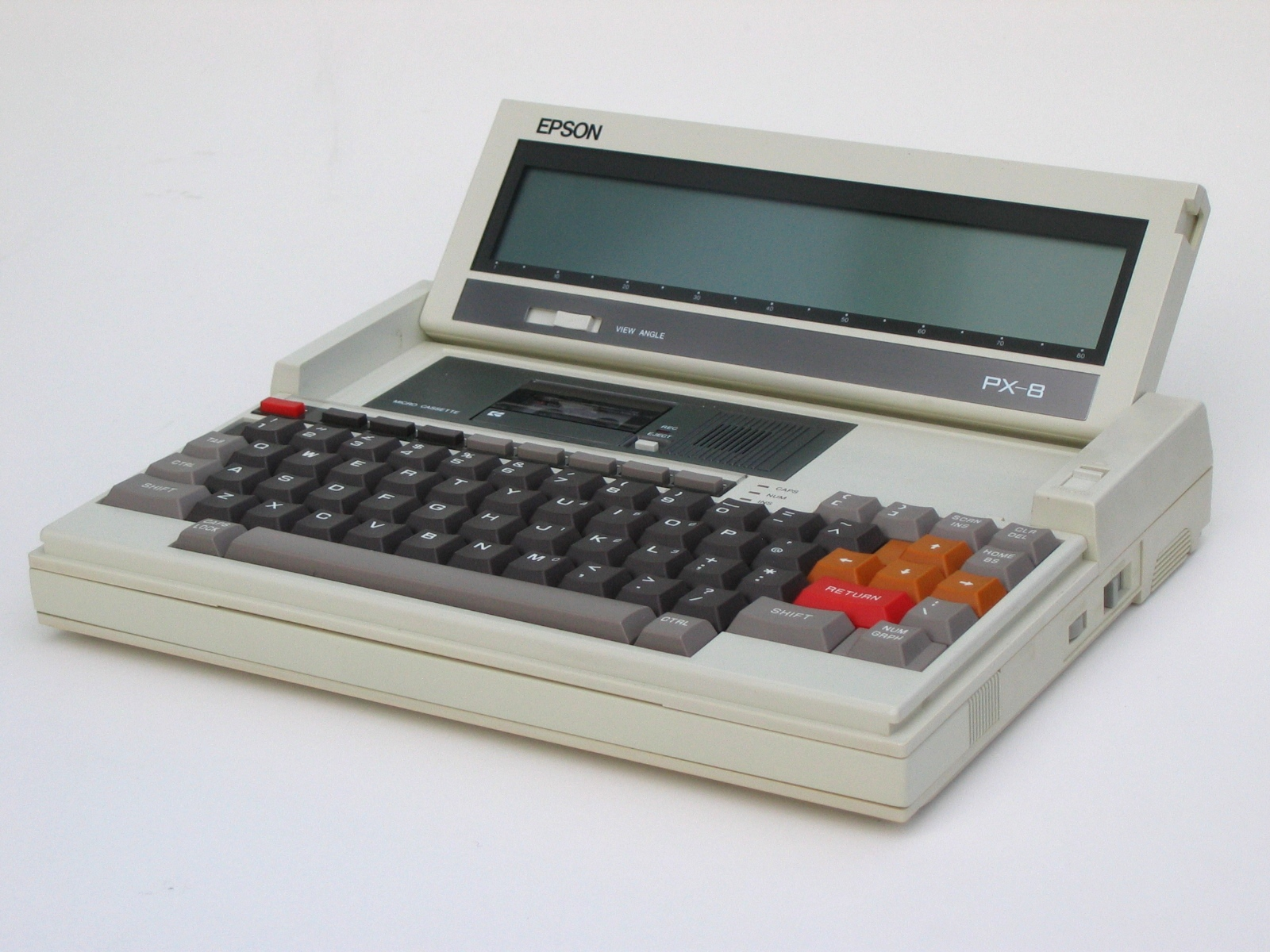 Epson PX-8 portable computer